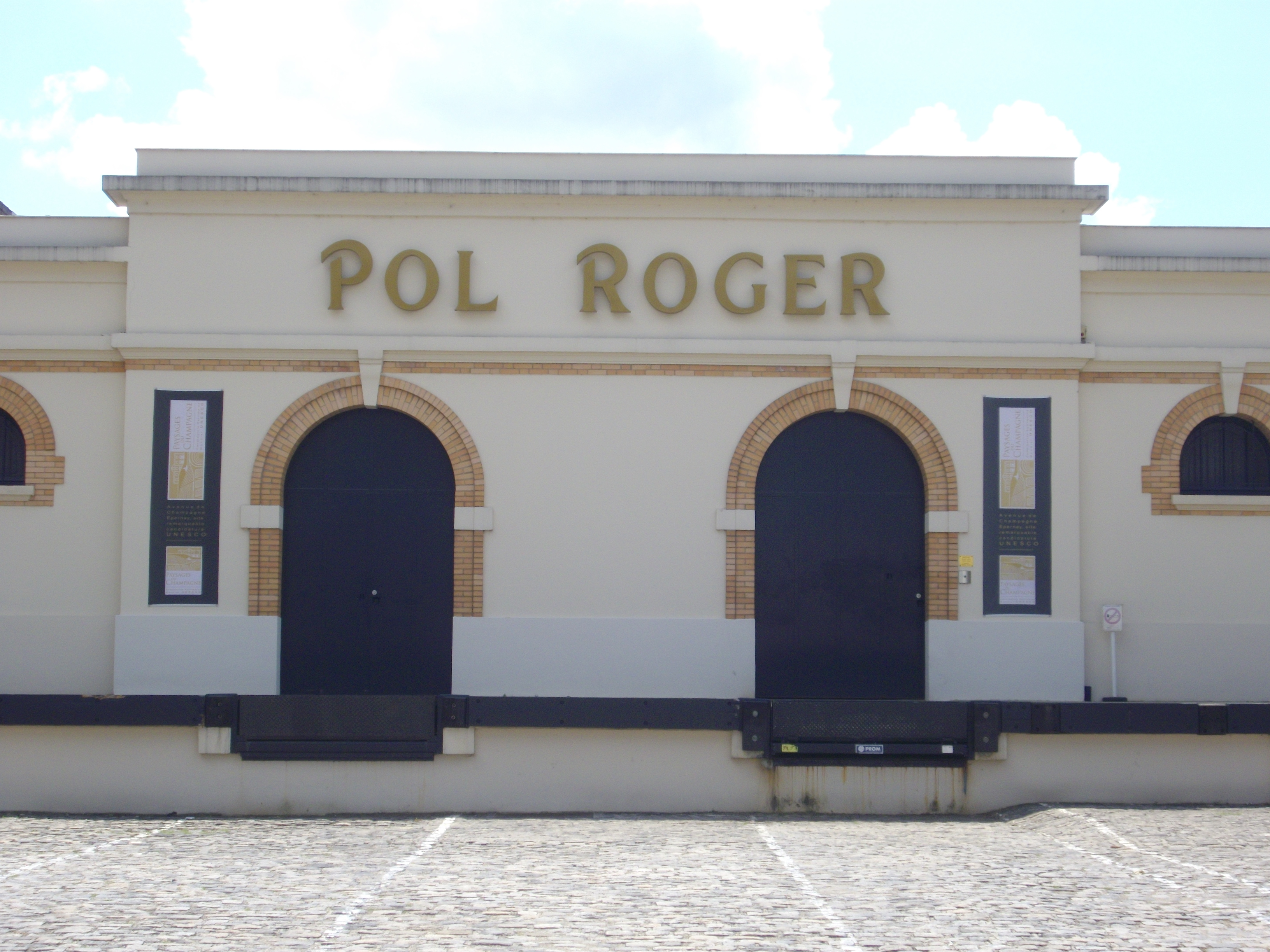 Pol Roger building, 32 Champagne avenue in Épernay (Marne, France)